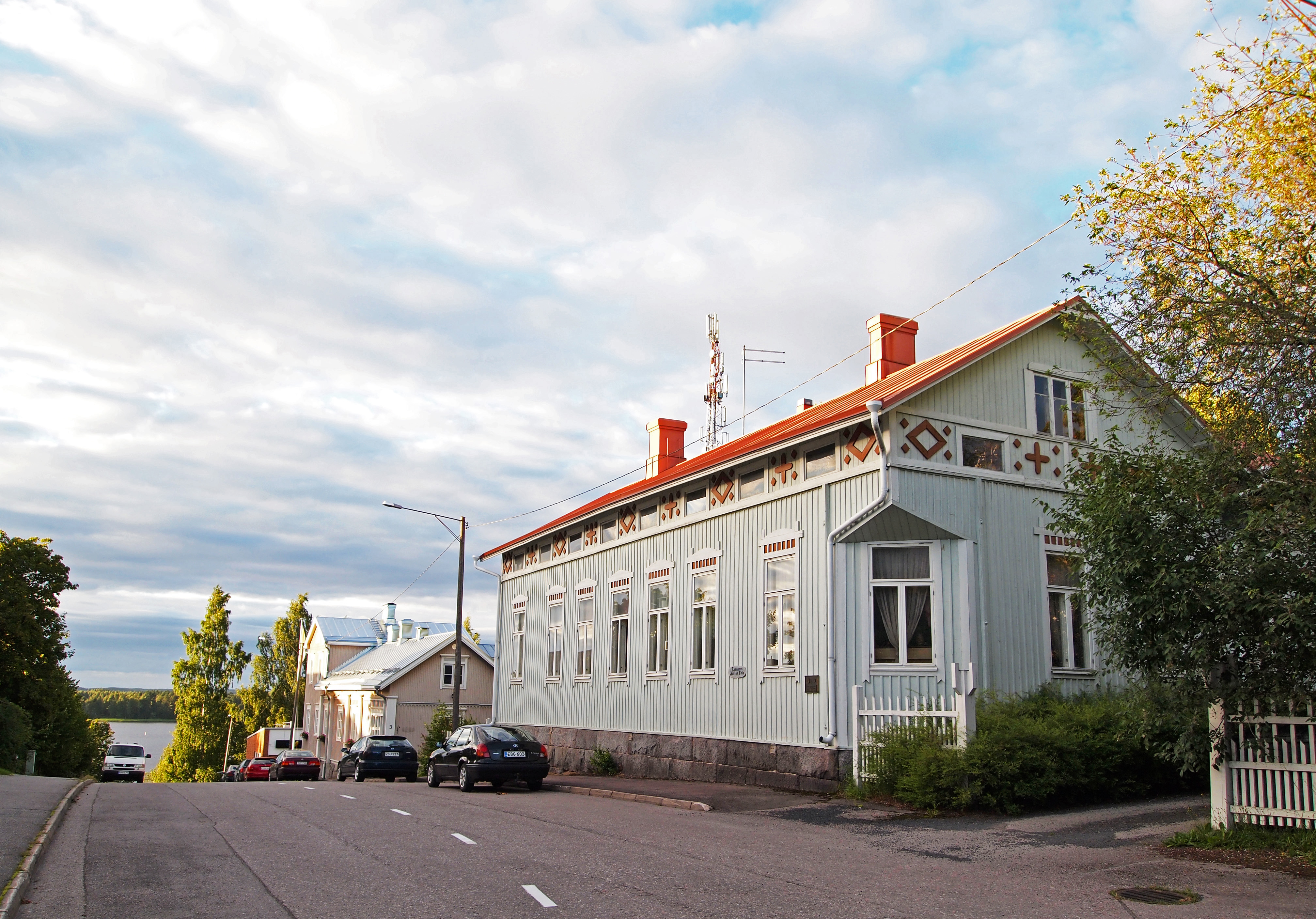 Building on the street Kauppakatu in Ikaalinen. This photograph was taken with an Olympus E-PL1